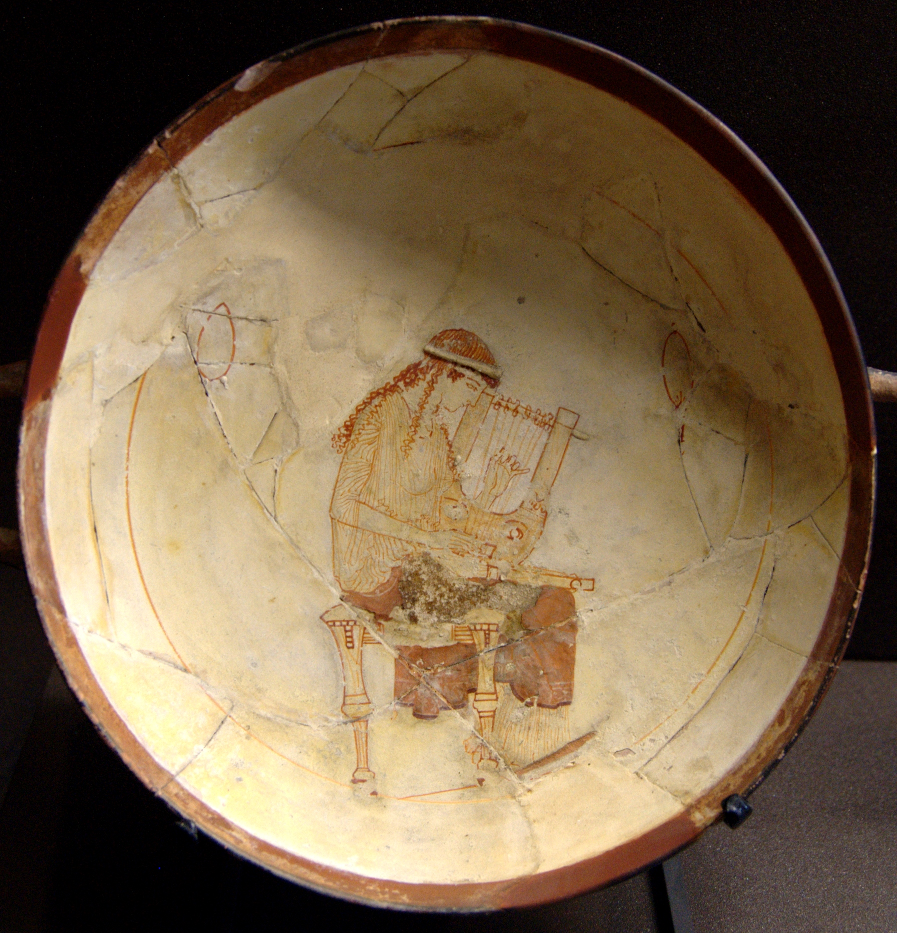 Muse tuning two kitharai. Tondo from a white-ground Attic cup, 470–460 BC. From Eretria.